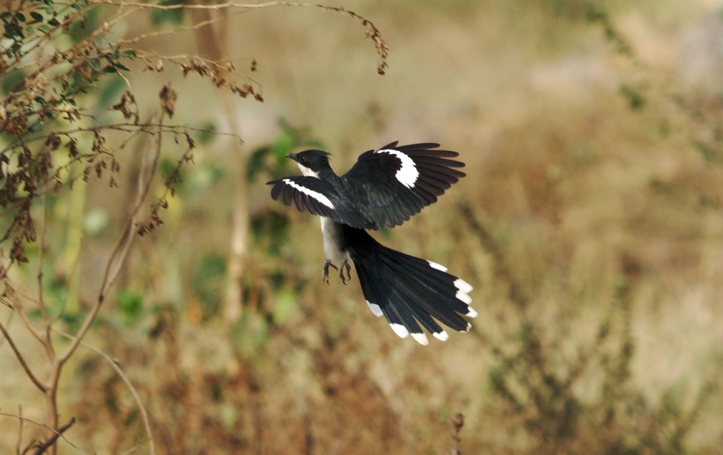 Pied Cuckoo Clamator jacobinus adult by Dr. Raju Kasambe. Photo taken at Dombivli, Maharashtra, India